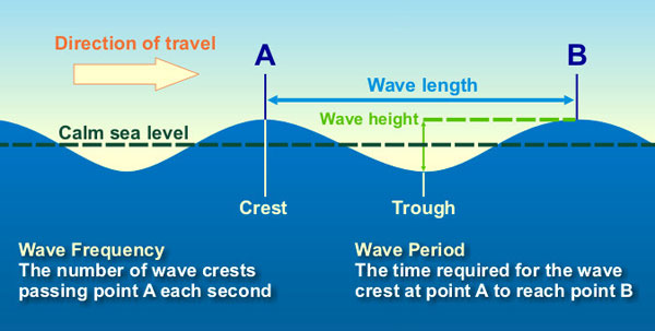 Diagram showing parts of a water wave